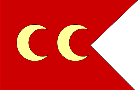 Flag of a Sipahi Unit of the Ottoman Empire.